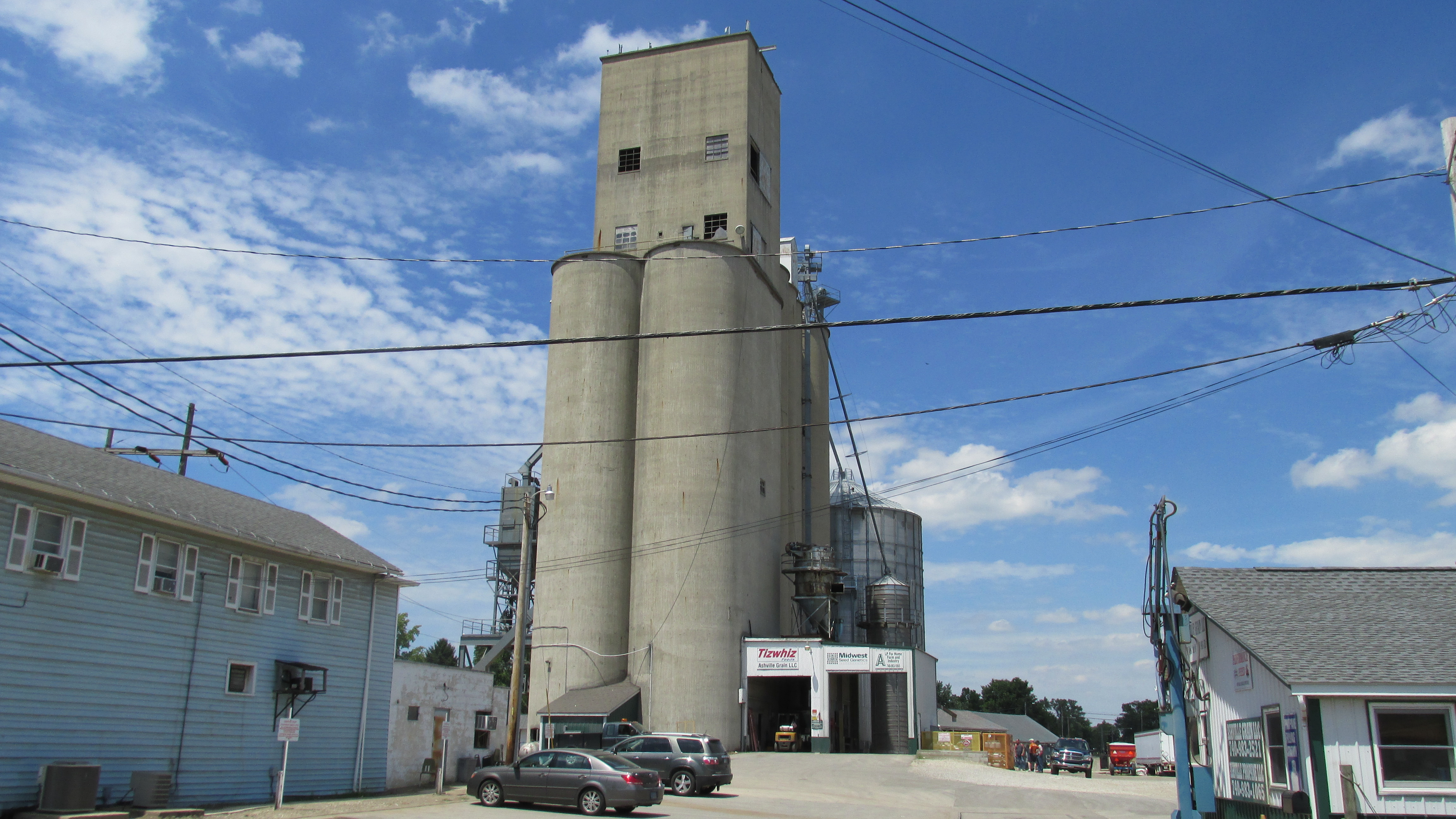 Ashville Grain LLC.